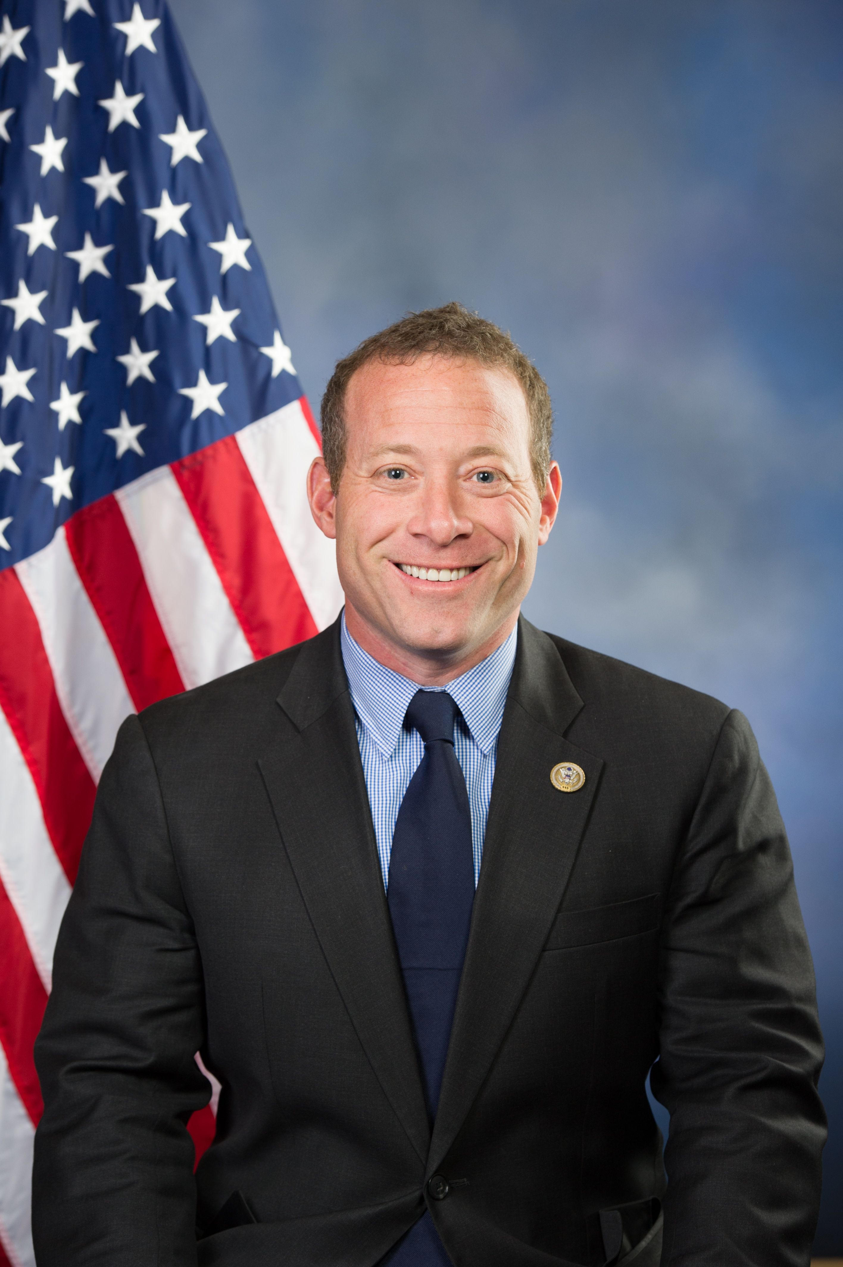 Official photo of Rep. Josh Gottheimer